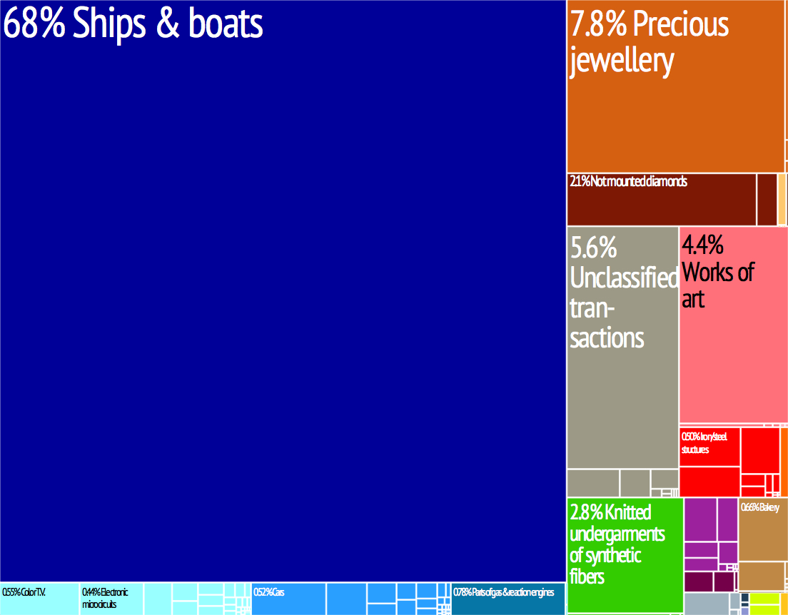 Export Trading Treemap. From MIT/Harvard Atlas of Economic Complexity